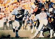 A football card from the 1986 Jeno's Pizza NFL football card stickers set of Houston Oilers defensive end Elvin Bethea (middle) and safety Carter Hartwig (right) in a defensive play against the San Diego Chargers in the 1979 AFC Divisional Playoff Game on December 29, 1979. The card is numbered #44 in the set. The back of the card reads: OILERS GANG UP ON THE CHARGERS Houston defensive back Carter Hartwig (36) and end Elvin Bethea (65) surround San Diego running back Lydell Mitchell, as the oilers beat the Chargers 17-14 in a 1979 AFC Divisional Playoff Game. The Houston defense intercepted five passes and also held the Chargers to just 63 yards on the ground.